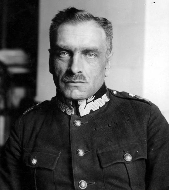 Felicjan Sławoj Składkowski - Polish Minister of Internal Affairs